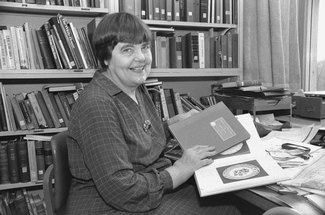 Margaret Brown Klapthor, Curator, National Museum of American History's Division of Political History (1922 - 1994), responsible for the First Ladies' Gowns Collection, seated at her desk in her office, February 3, 1983. I confirmed with the Smithsonian that this is a photograph taken in the course of the work of a federal employee: They requested that it be credited to : Smithsonian Institution Archives. Image # 83-878-25.